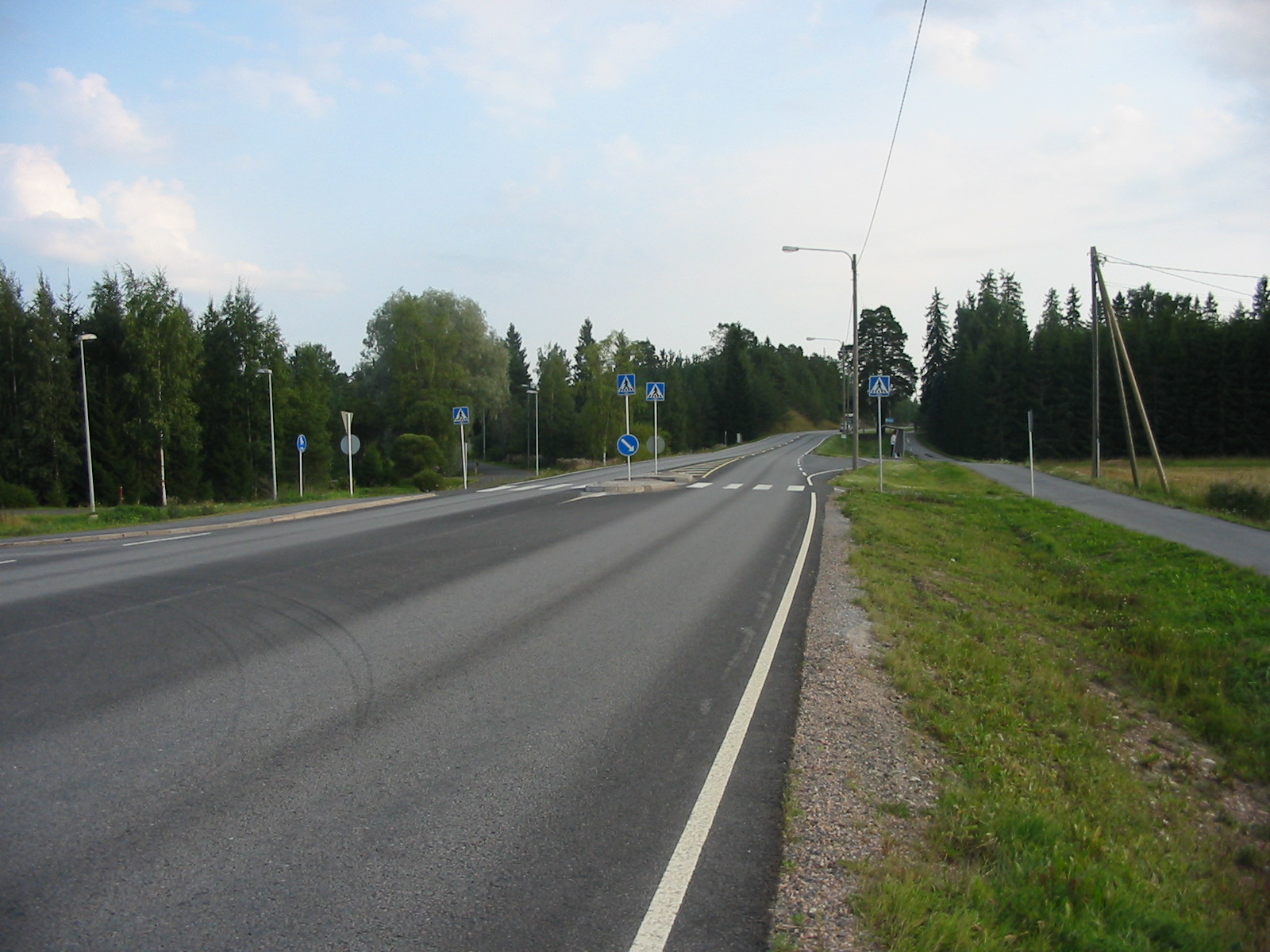 Connecting road 2012 in Munittula, Rusko, Finland